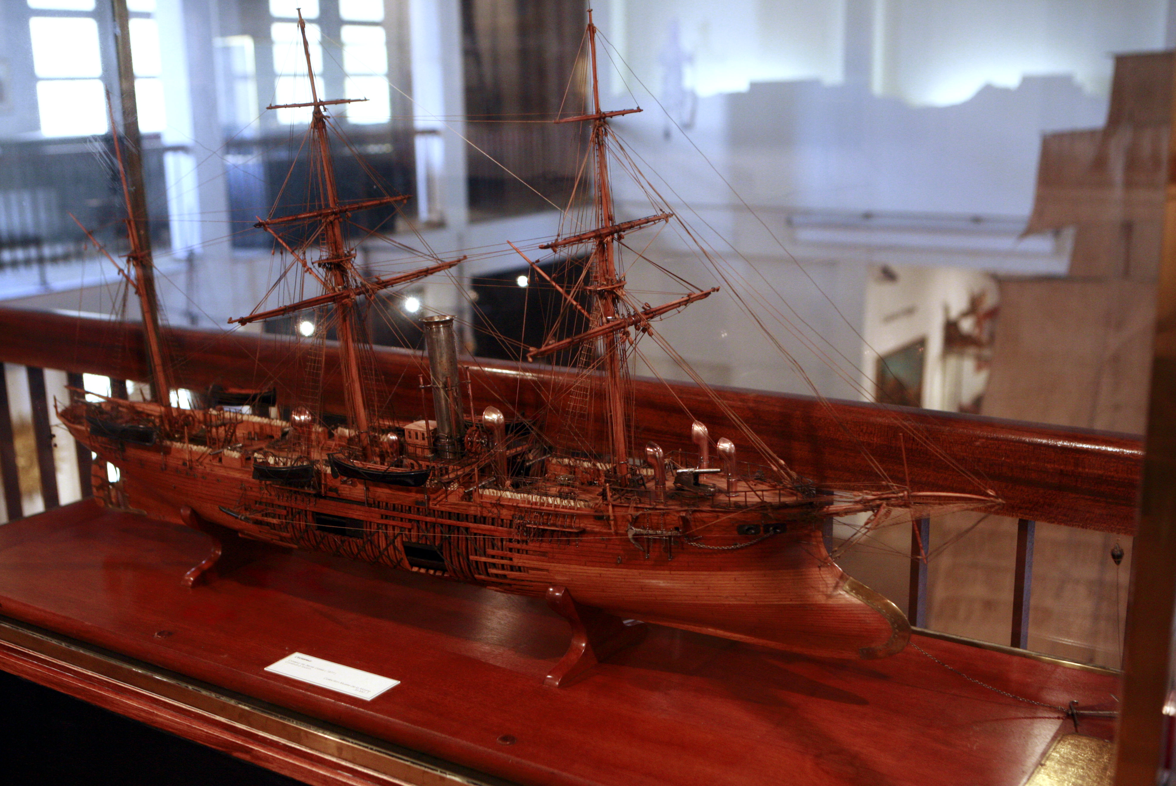 Scale model of the Éclaireur, 3rd class aviso of the French Navy (1877). On display at Toulon naval museum, access number 33 MG 7